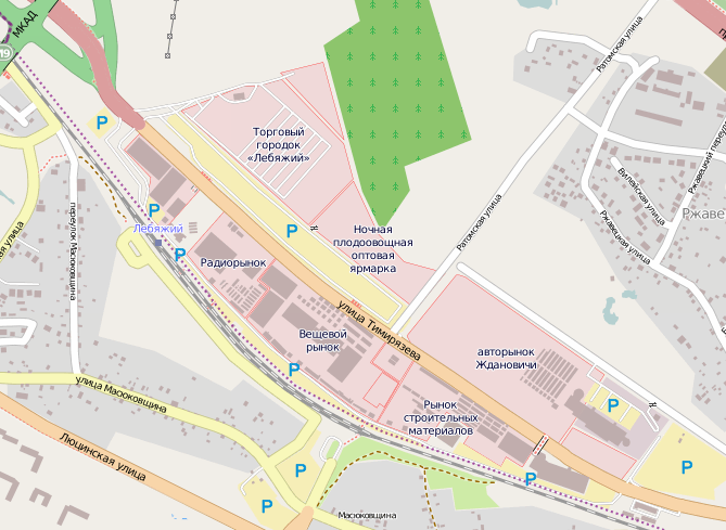 Zdanovicy market